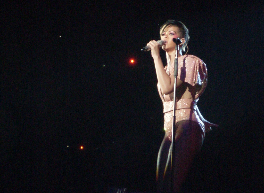 Rihanna in her Last Girl on Earth Tour